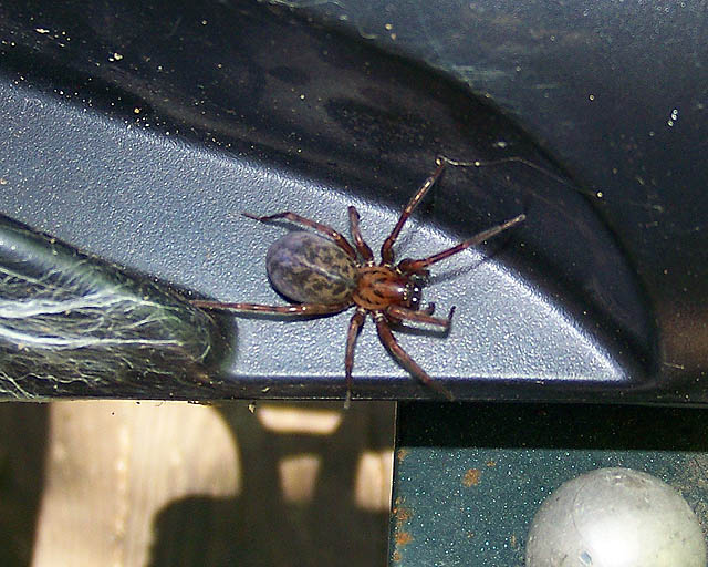 Coras medicinalis found in my shed. Body was about 25mm in length.